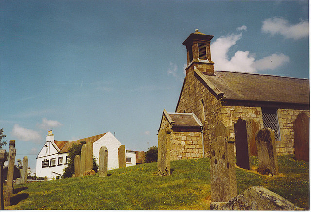 Crawfordjohn. Colebrook Arms with the village kirk.